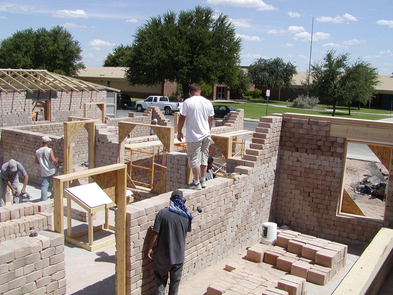 This is a picture I took while building a CEB project in Midland Texas August 2006. The first house walls were up and the second was in progress. We were using the local Chalk/decomposed limestone subsoil of the area without modification except hydration. signed--Dan Powell